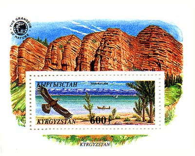 Stamp of Kyrgyzstan